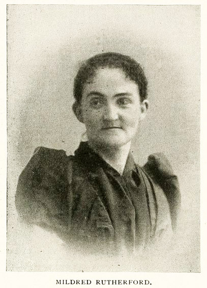 Portrait of American educator and author Mildred Lewis Rutherford (1851–1928). From American Women: Fifteen Hundred Biographies with Over 1,400 Portraits, Frances E. Willard and Mary A. Livermore, editors. Mast, Crowell & Kirkpatrick, 1897 (revised edition from 1893), p. 628